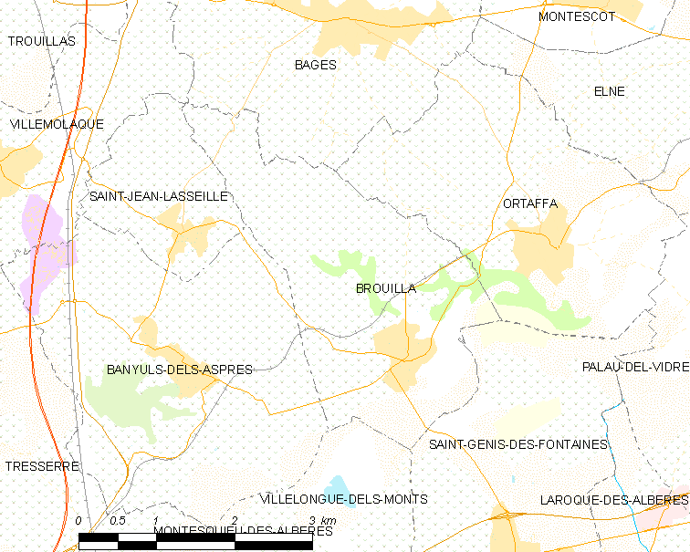 Map of French municipality